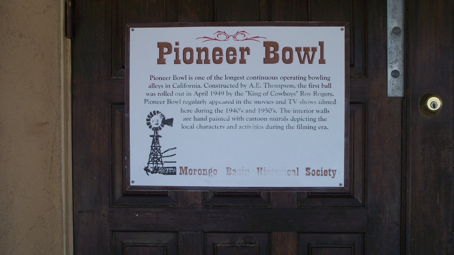 Historic society sign on the front door of Pioneer Bowl, part of a onetime permanent motion picture set located in Pioneertown, California USA and originally built by Roy Rogers and Gene Autry